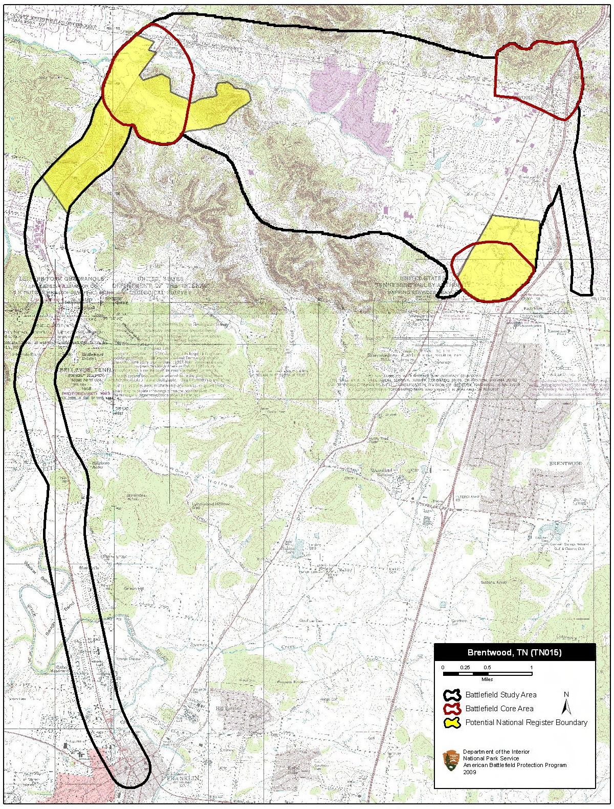 Map of battlefield core and study areas. The revised Study Area includes the Confederate cavalry approach on the Hillsboro Pike.